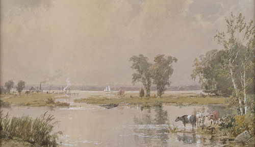 Hackensack Meadows